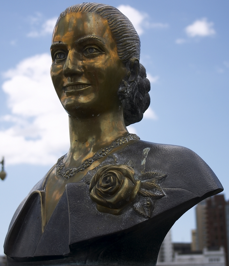 Scultpture of Eva Perón at La Plata city, Argentina